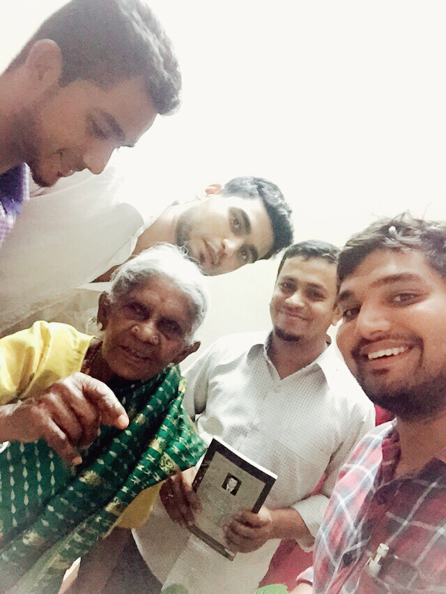 Saalu Marada Thimakka with students on World Environment Day, 2015